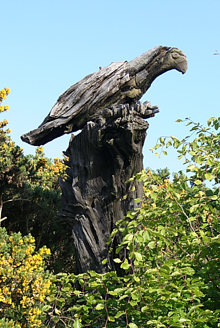 Wood Sculpture One of the many and varied wooden sculptures outside Glenmore Guest House.